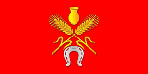 Flag of Kaściukovičy